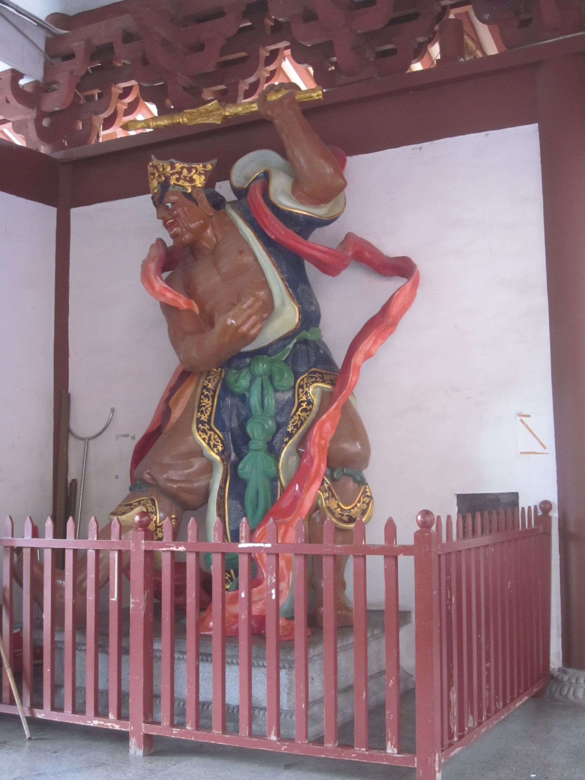 Ha (哈将军) inside in the Sanmon of Hongfa Temple, in Shenzhen, Guangdong, China. The generic name for statues with an open mouth is agyō (哈将军 lit. "a" shape), that for those with a closed mouth ungyō (哼将军 lit. "un" shape"). Hongfa Temple (弘法寺), is a Buddhist temple located in Bao'an District of Shenzhen city, south China's Guangdong province.